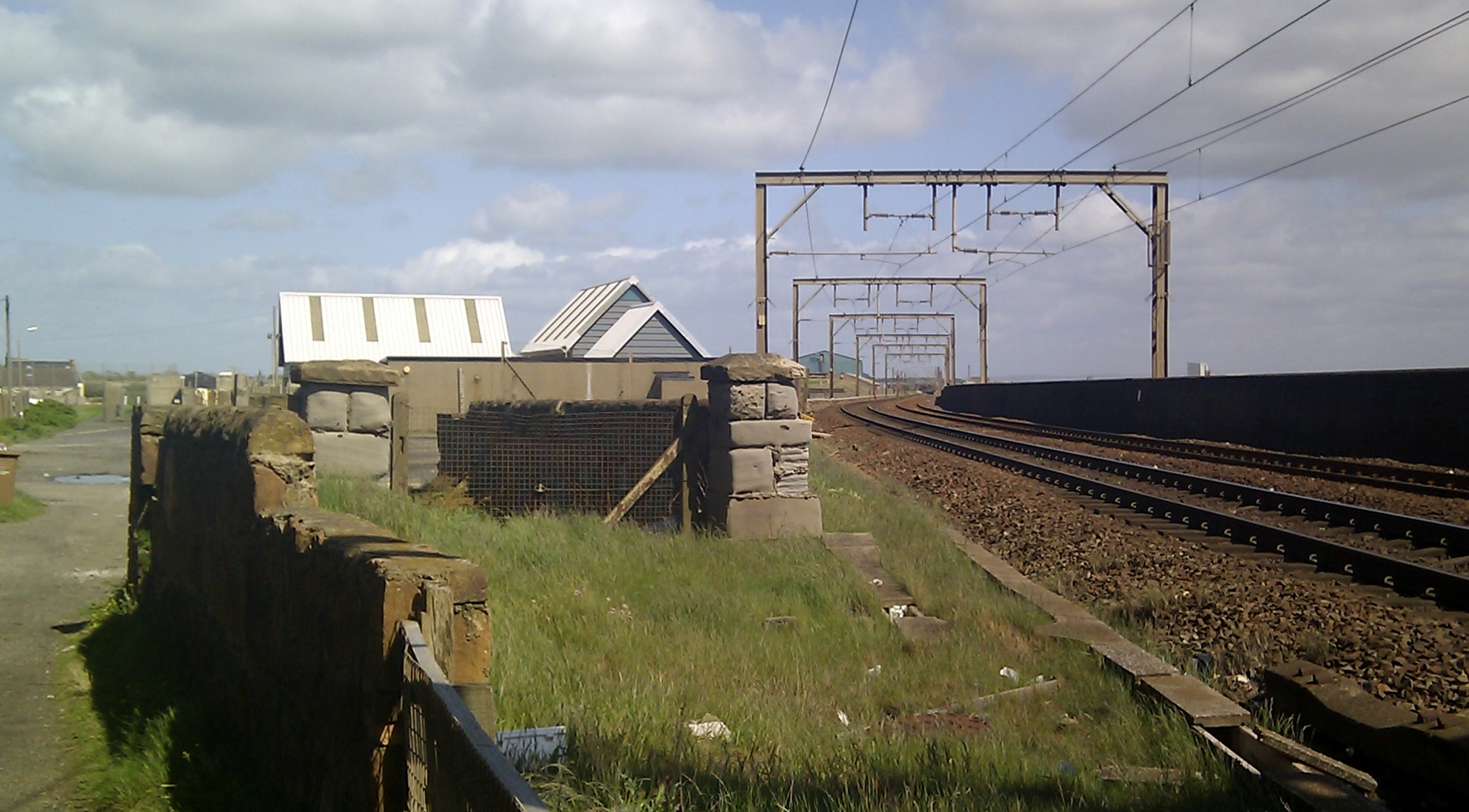 Gatepiers at the Stevenston Canal Basin site and Waggonway route, Saltcoats, North Ayrshire, Scotland.